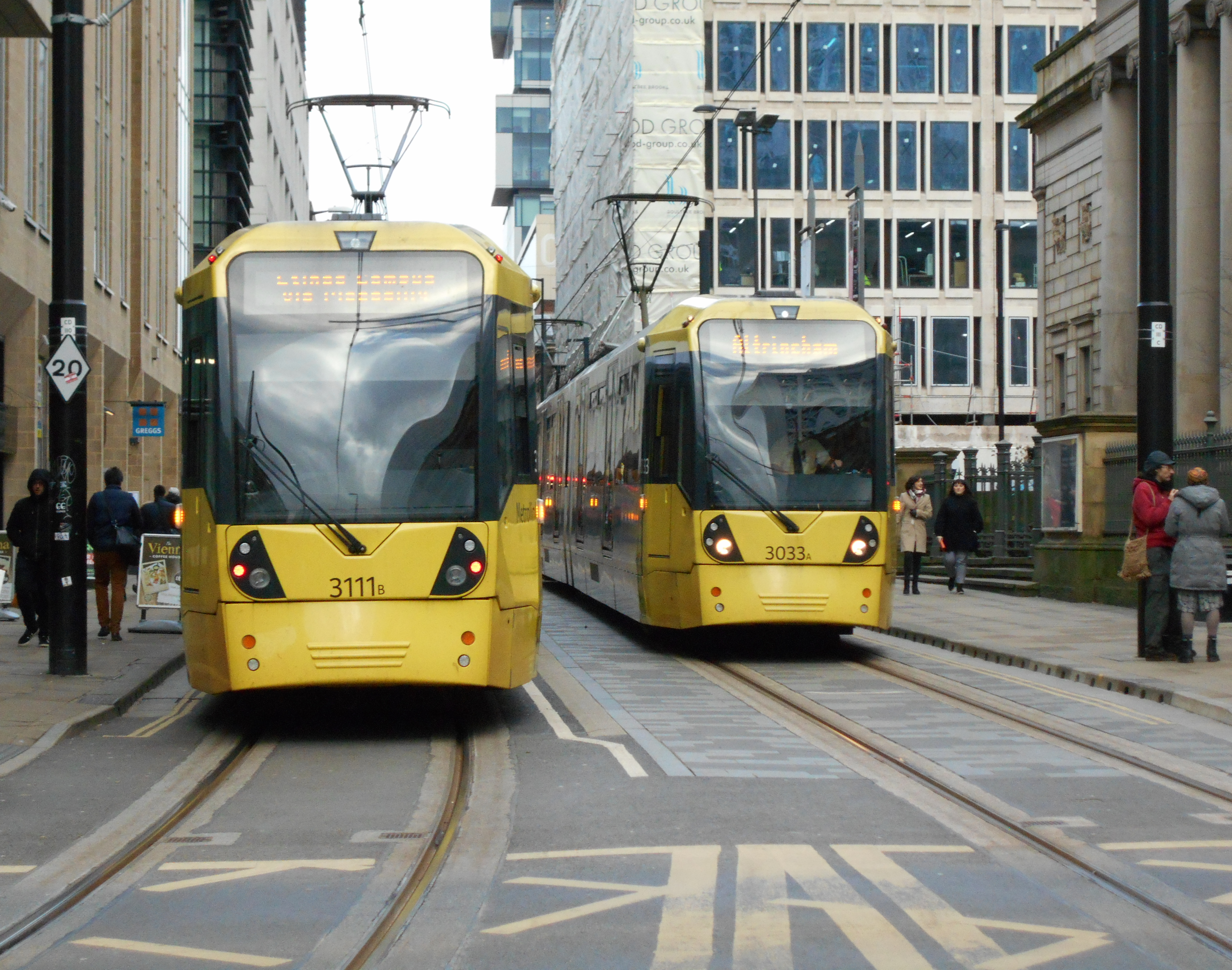 Two M5000 trams passing in Manchester city centre on Mosley Street approaching St Peter's Square tram stop.